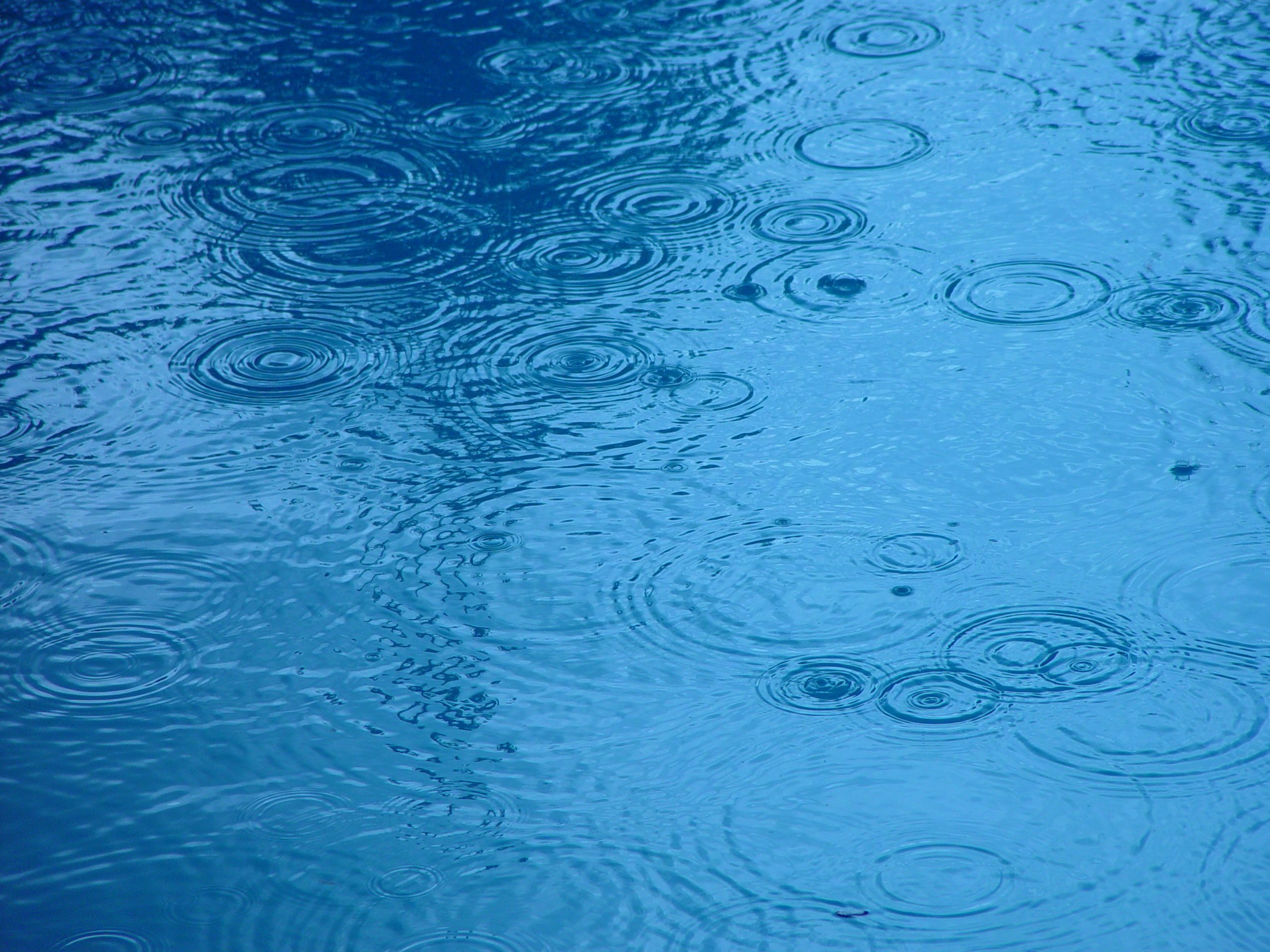 Image title: Rain droplets Image from Public domain images website